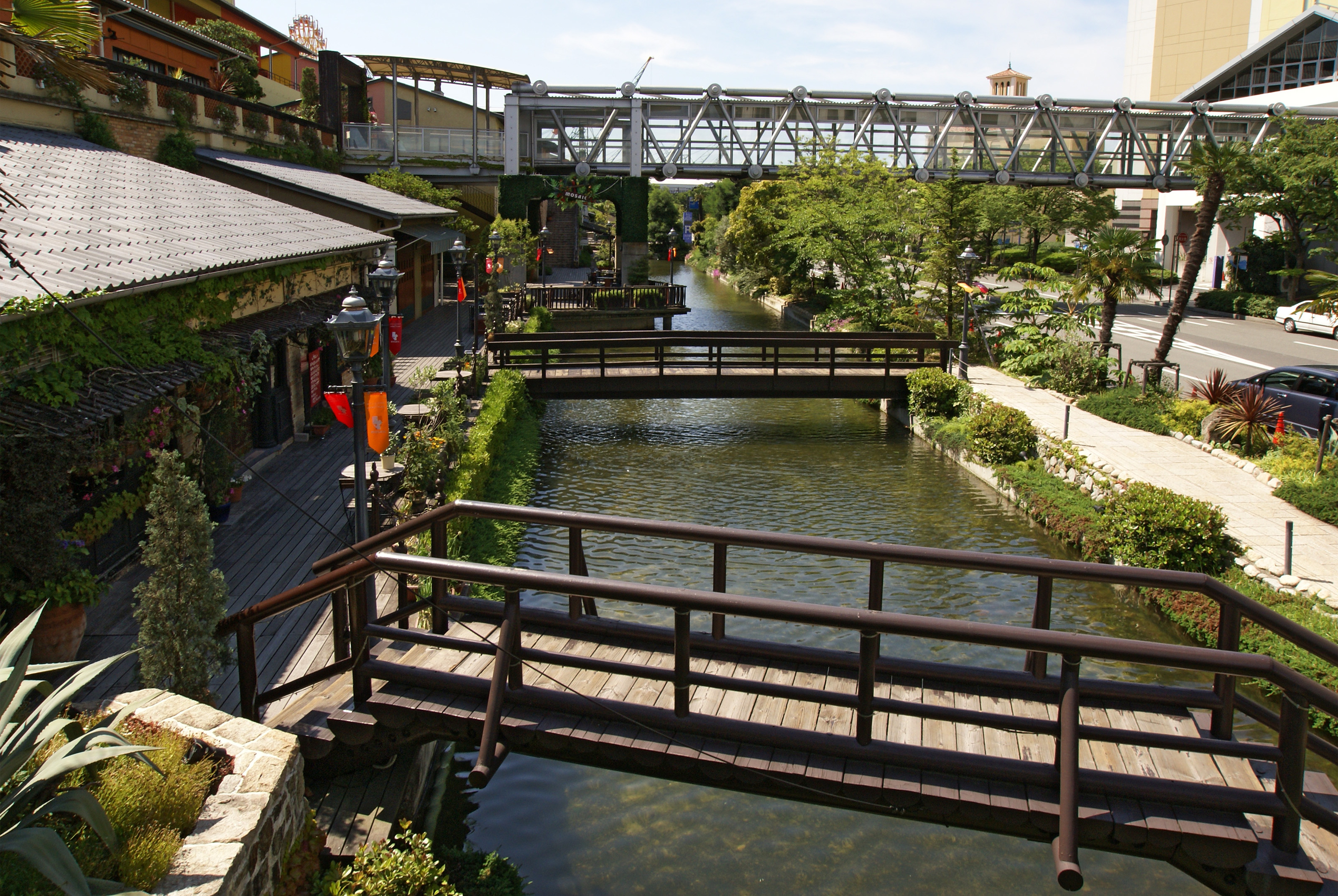 "MOSAIC" of Harborland in Kobe, Hyogo, Japan